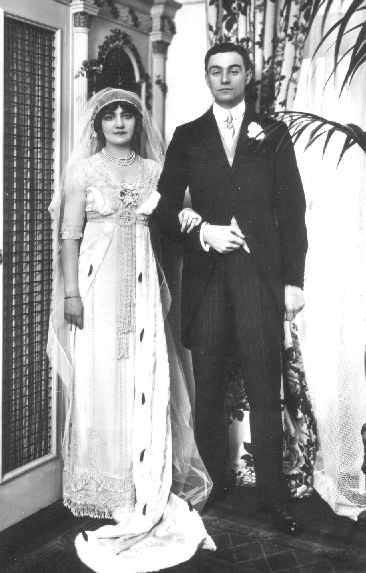 Wedding photo of Lily Elsie, 1911